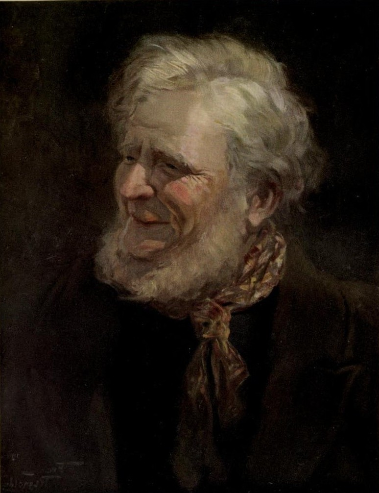 Daniel Peggotty a character in Charles Dickens' David Copperfield. Mr. Peggotty as a "hale grey-haired old man" (chapter LXIII).